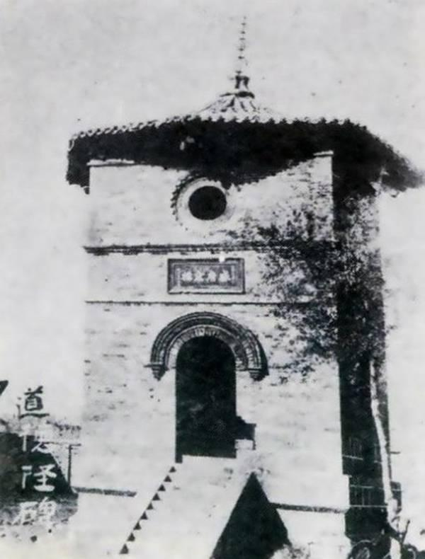 Laozi Stone Column, Xingtai, Hebei, China